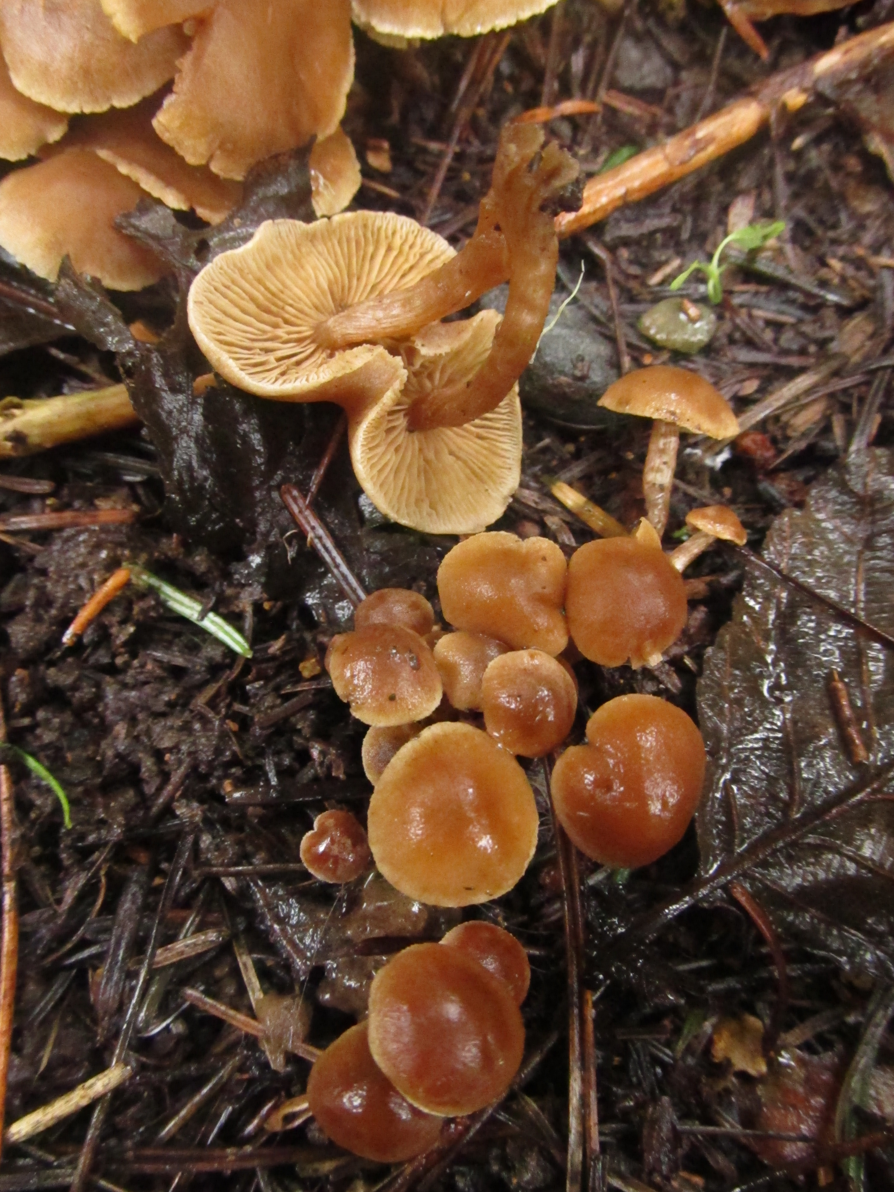 Fruit bodies of the agaric fungus Naucoria (not determined to species). Photographed in Caspar, California, USA. Notes: "Based on microscopic features: cheilocystidia and lemon-shaped spores; found under Alnus rubra"